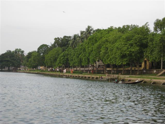 Partial View of Dharmasagar in Morning 20 June 2009.